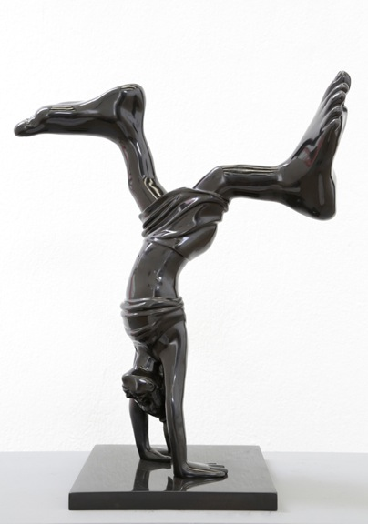 Mini Foot Medium Black